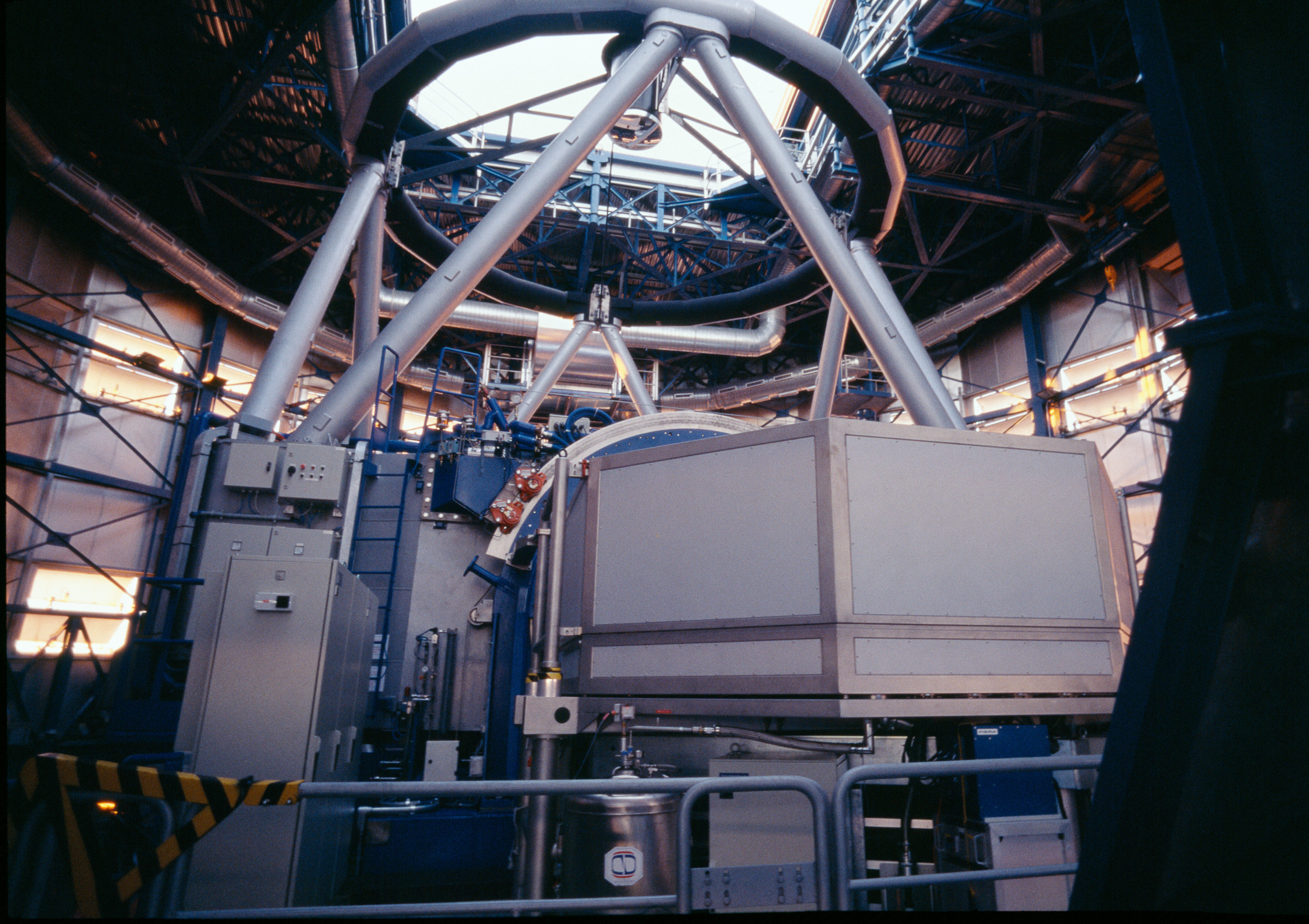 Every day, before the observations start, each telescope undergoes a complete start up during which each of its function is checked, like a plane before take off. Here, Kueyen, the second Unit Telescope, is ready for the night. The instrument in the foreground is UVES, the high-resolution spectrograph.